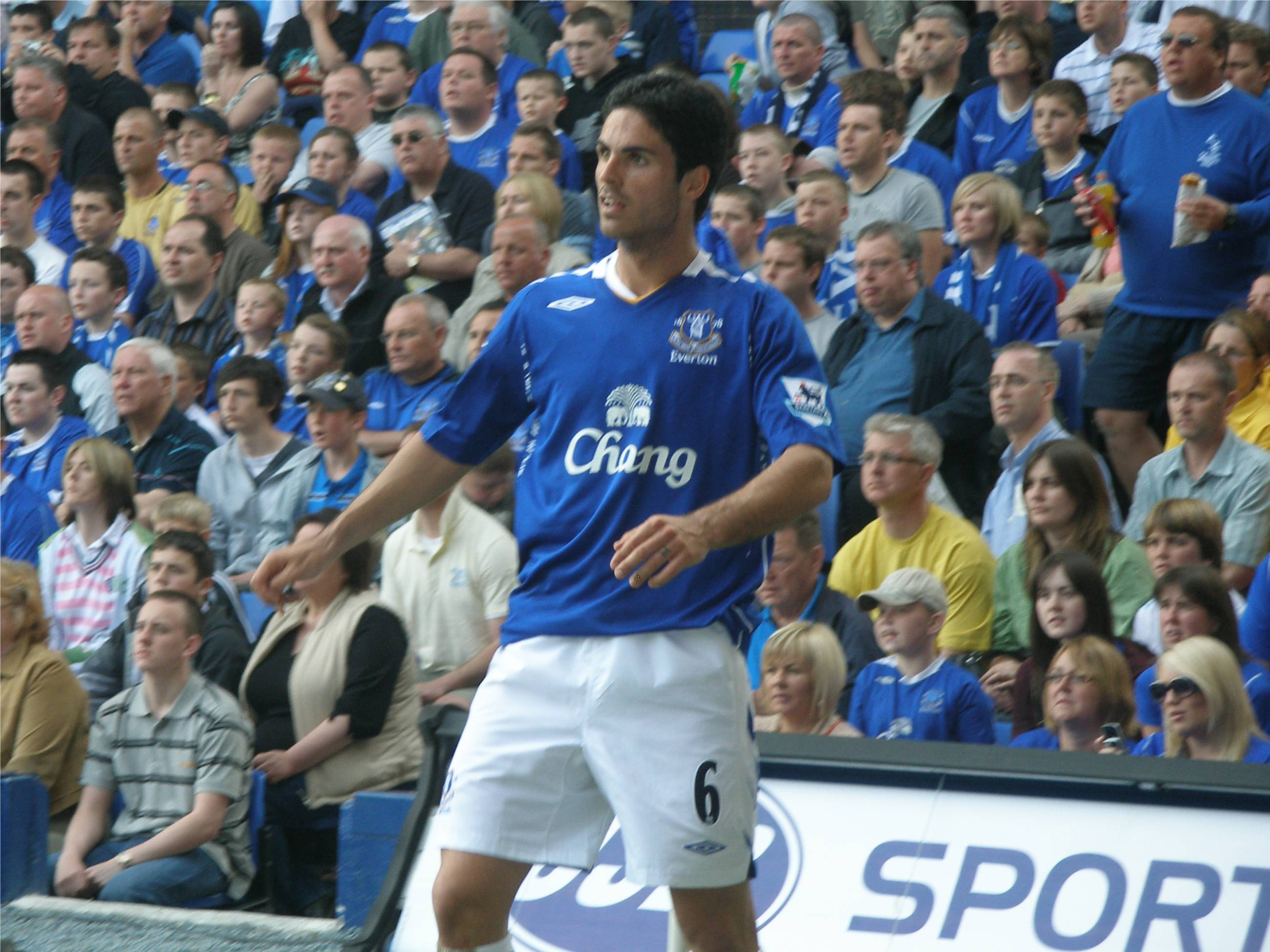 Mikel Arteta shortly after taking a throw in in Everton's 3-0 defeat of Portsmouth at Goodison Park, Liverpool, on May 7th 2007